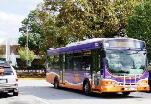 While the CAT buses have moved to cover areas beyond the scope of the Clemson area, they have also cut back on routes in their home territory.